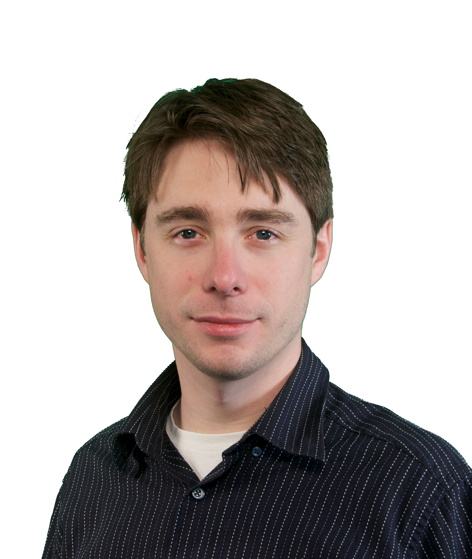 A headshot of Ian Clarke, computer scientist